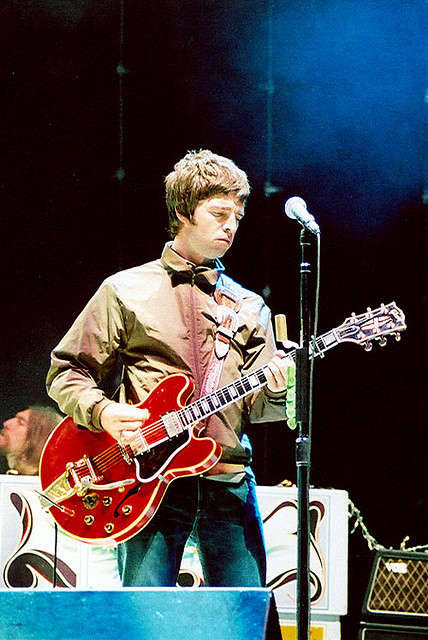 Noel Gallagher of Oasis during a performance